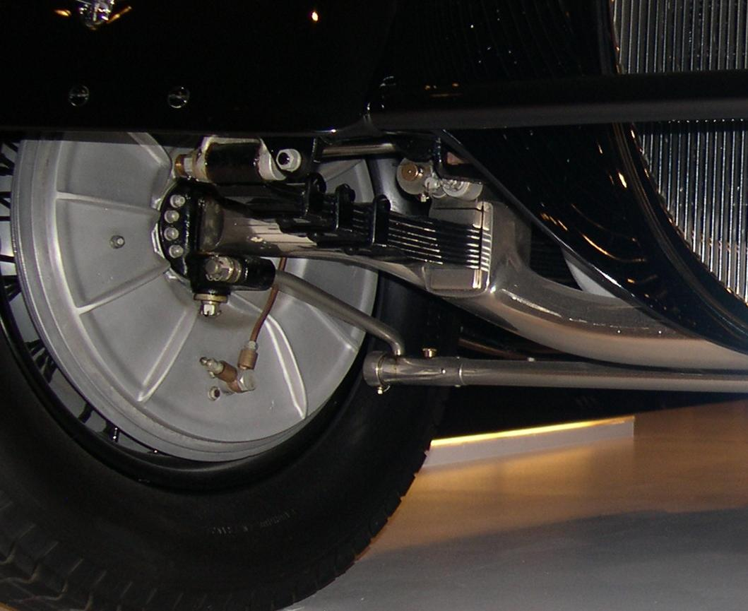 1937 Bugatti Type 57SC Gangloff Drop Head Coupe Front suspension From the Ralph Lauren collection on display at the Boston Museum of Fine Arts. Photo taken in 2005. Source: Photo by User:Sfoskett